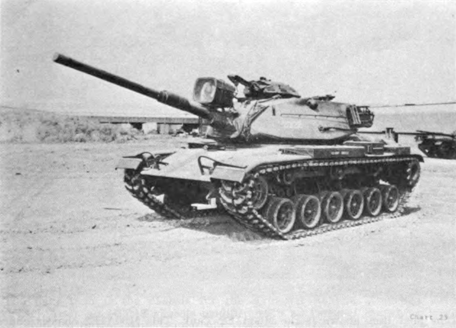 The M60A1 Tank was U.S. standard medium tank, with a diesel engine and a 105mm gun as its primary armament. This tank weighs approximately 52.5 tons. It has an average cruising range of 310 miles and can attain a speed of 30 mph. It has a crew of four